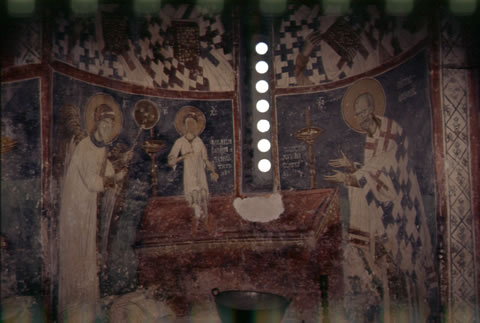 Matejče Monastery, Macedonia